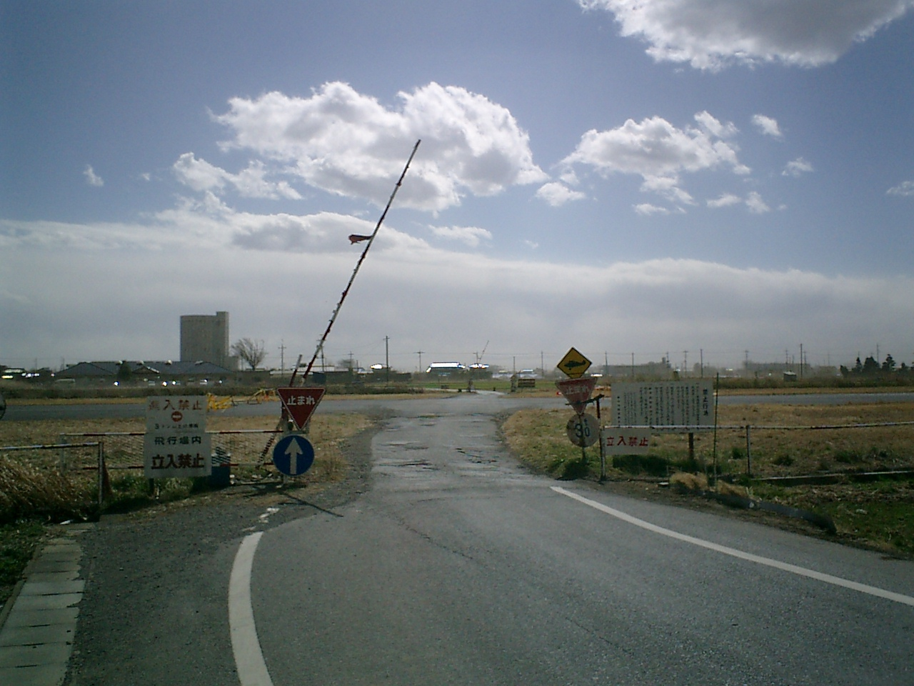 Level crossing between Onishi Airport's runway and car road which had existed until Mar. 31, 2004. Very un-common "Caution Aircraft" road sign at right.